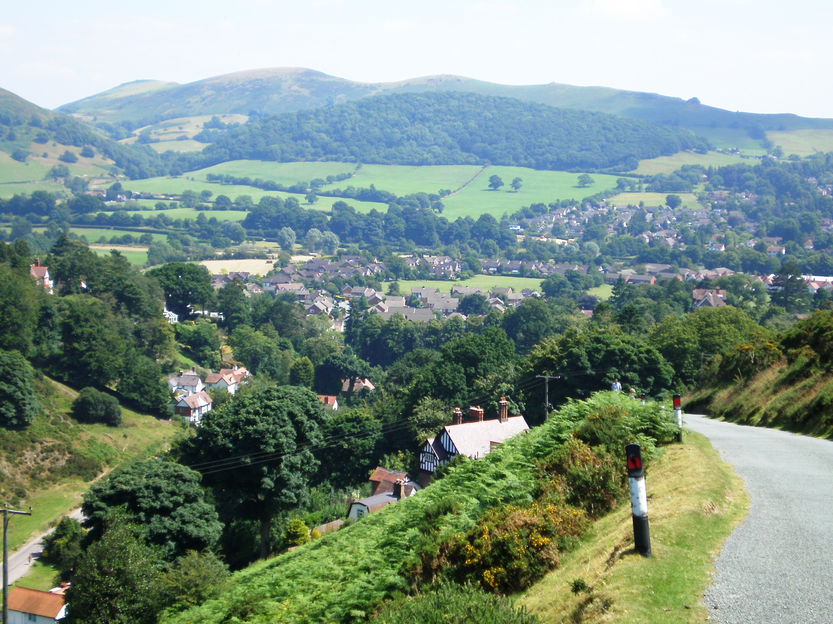 Church Stretton from the hills, Shropshire, UK